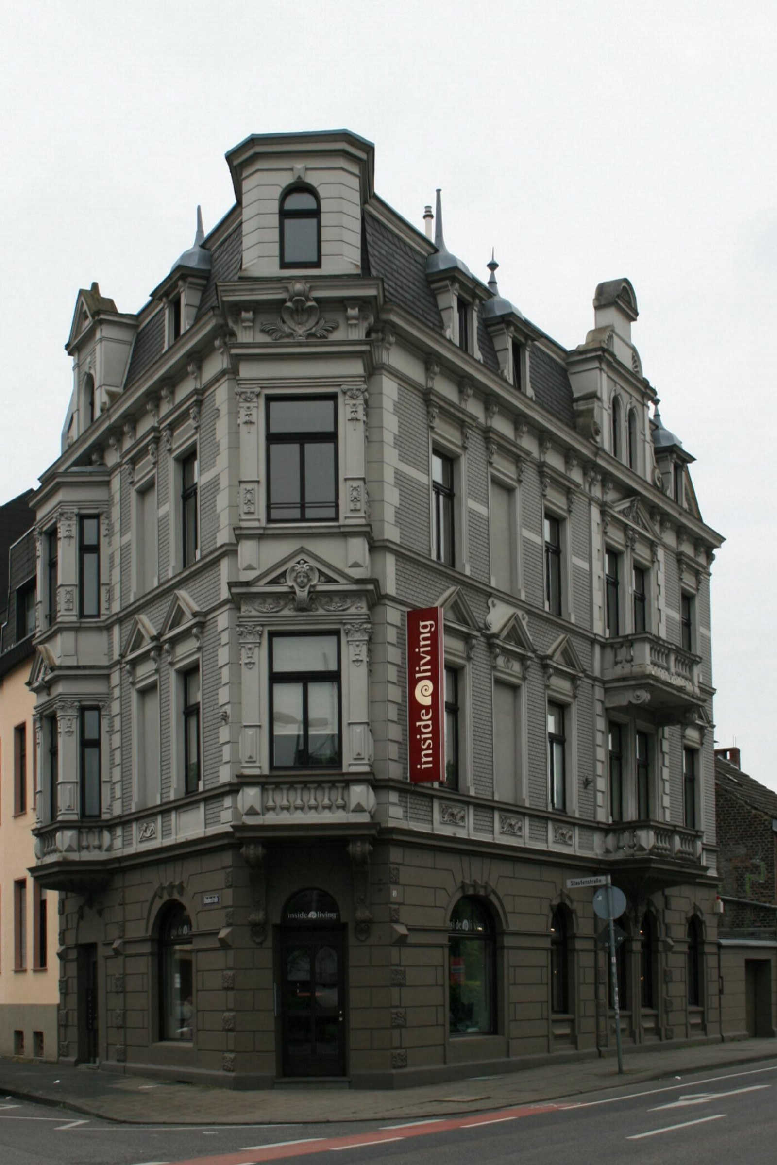 Cultural heritage monument No. V 001 in Mönchengladbach